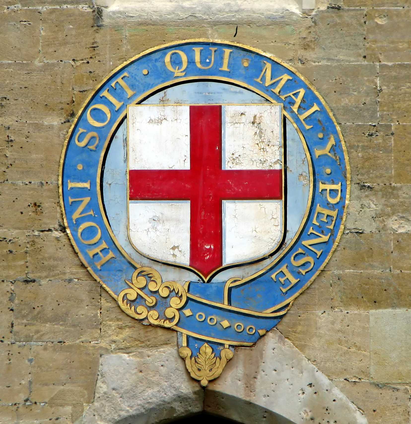 Emblem of the Order of the Garter at Windsor Castle with motto "Honi Soit Qui Mal Y Pense", England